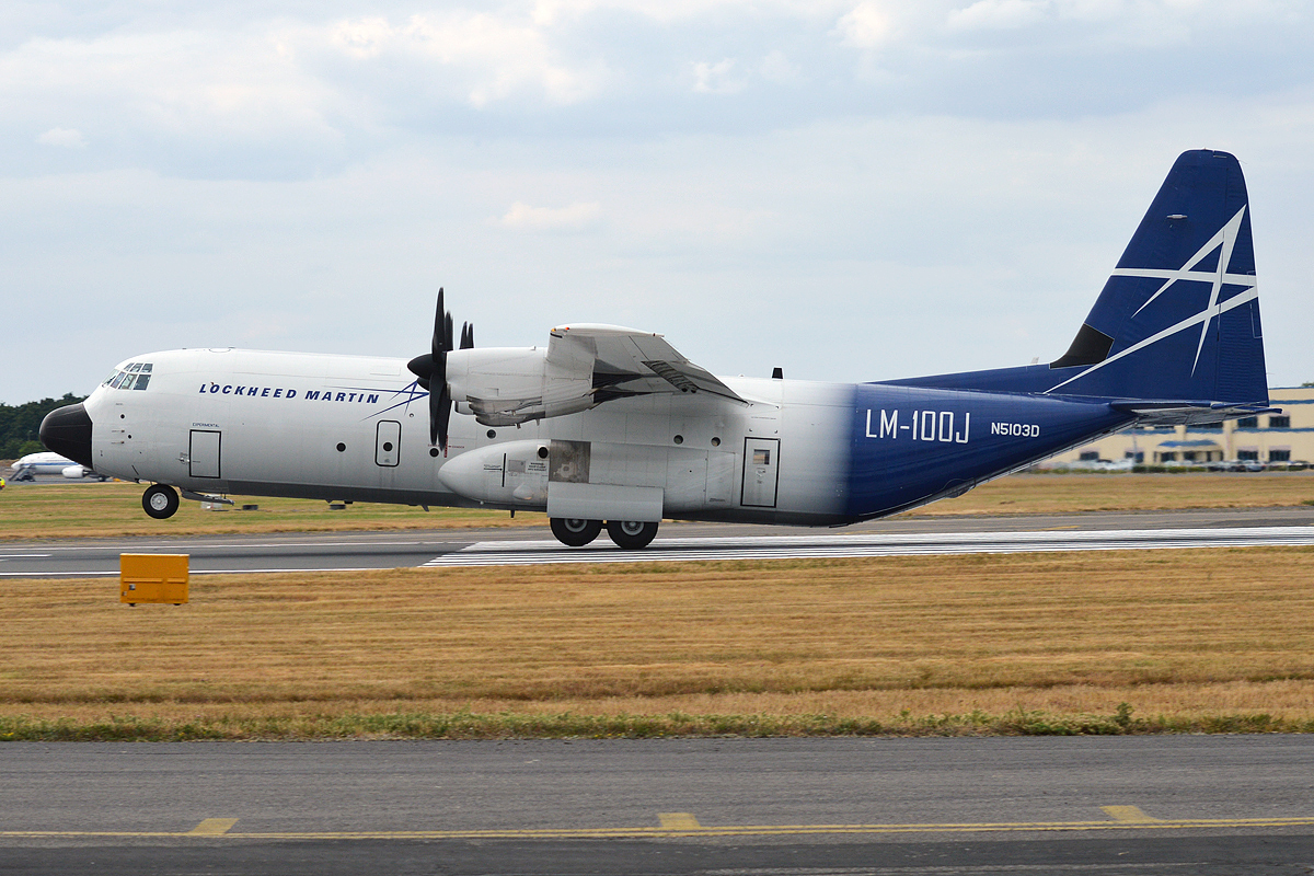 Lockheed Martin, N5103D, Lockheed Martin LM-100J Super Hercules